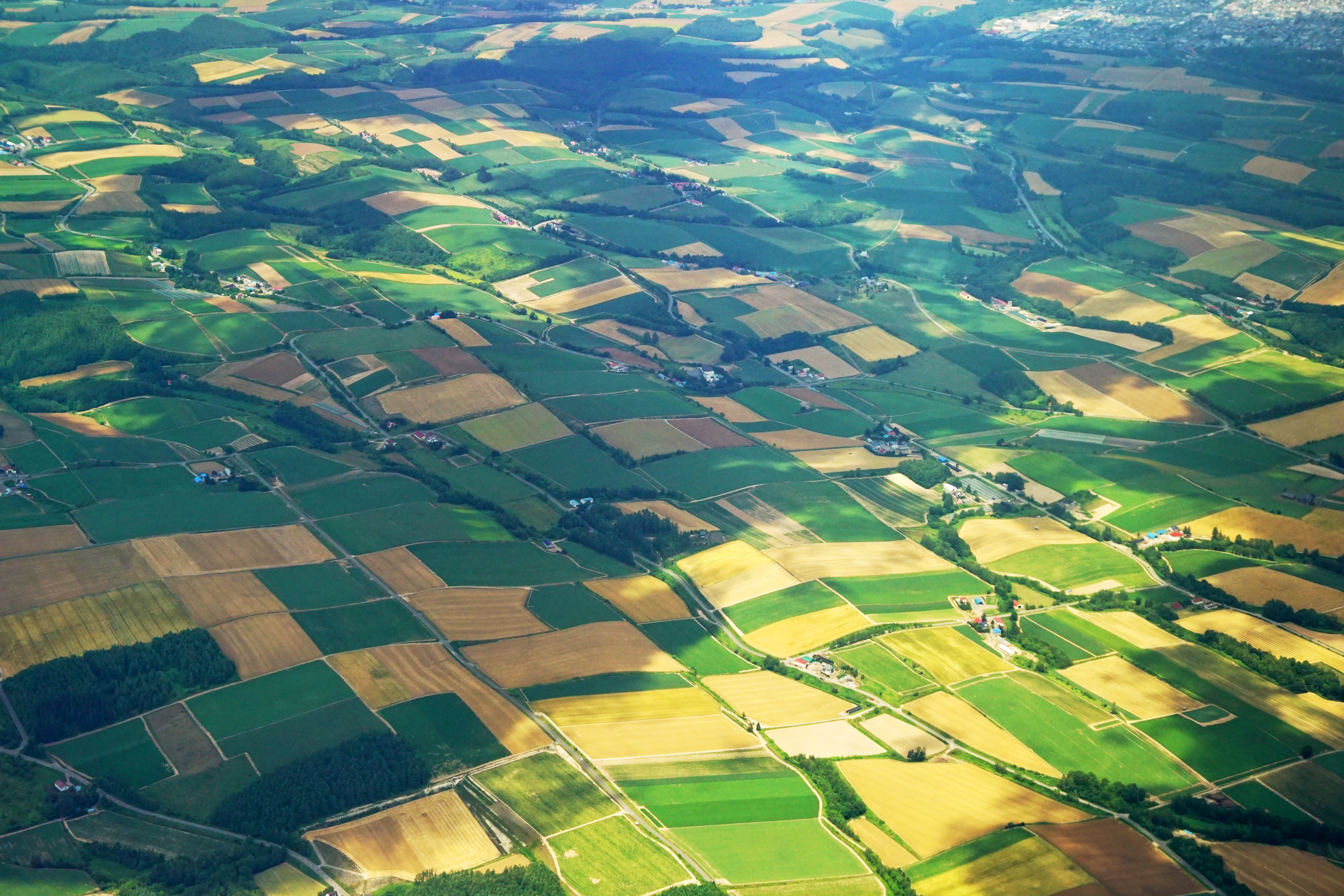 Patchwork Road in Biei, Hokkaido, Japan.